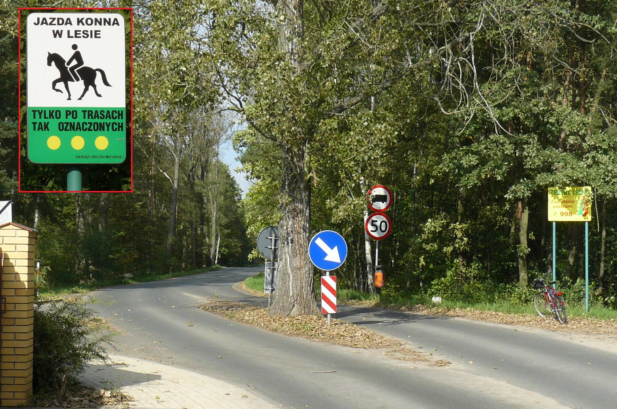 Lasek Marcelinski Forrest, Poznan.